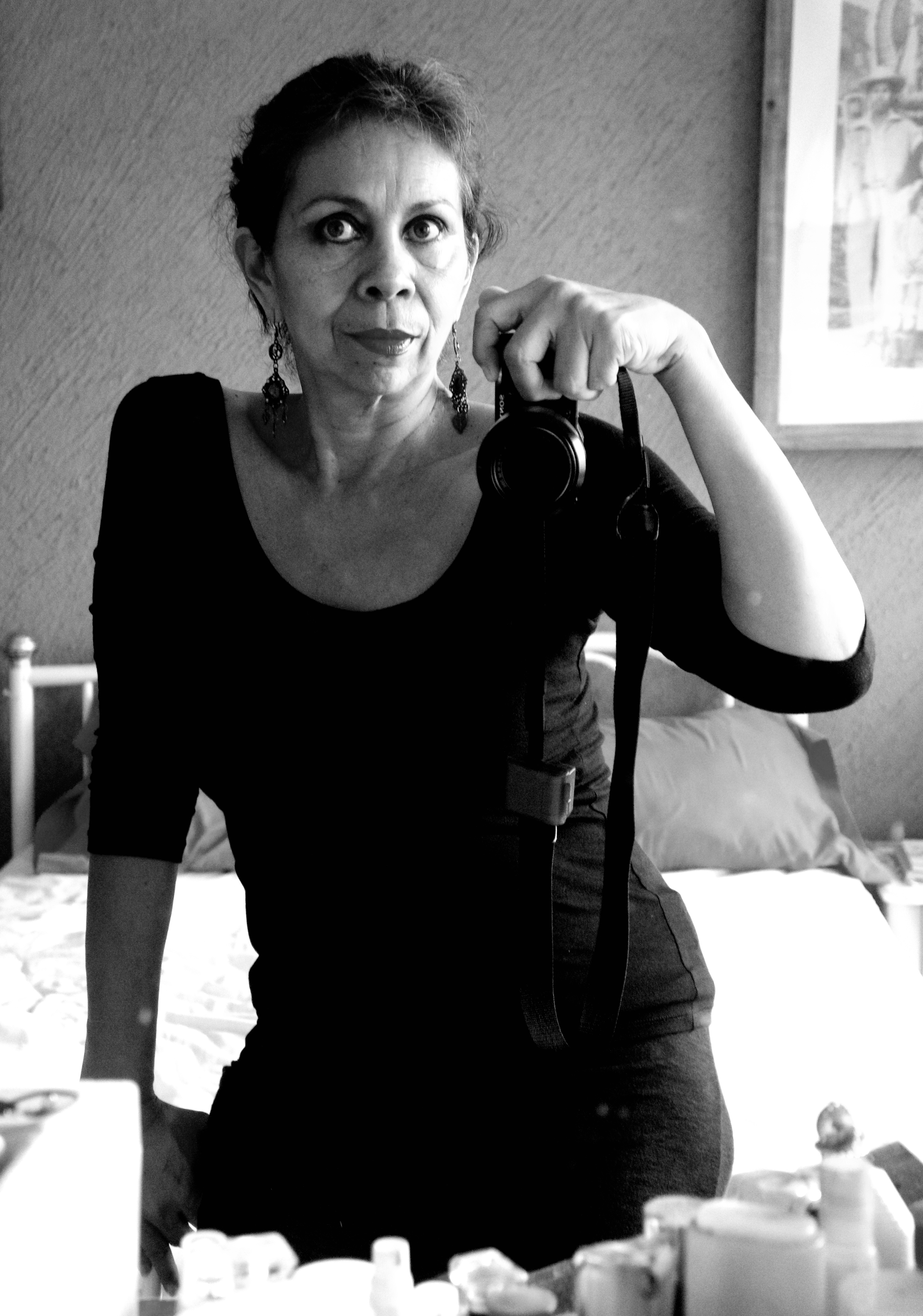 Mexican Artist Guillermina Ortega